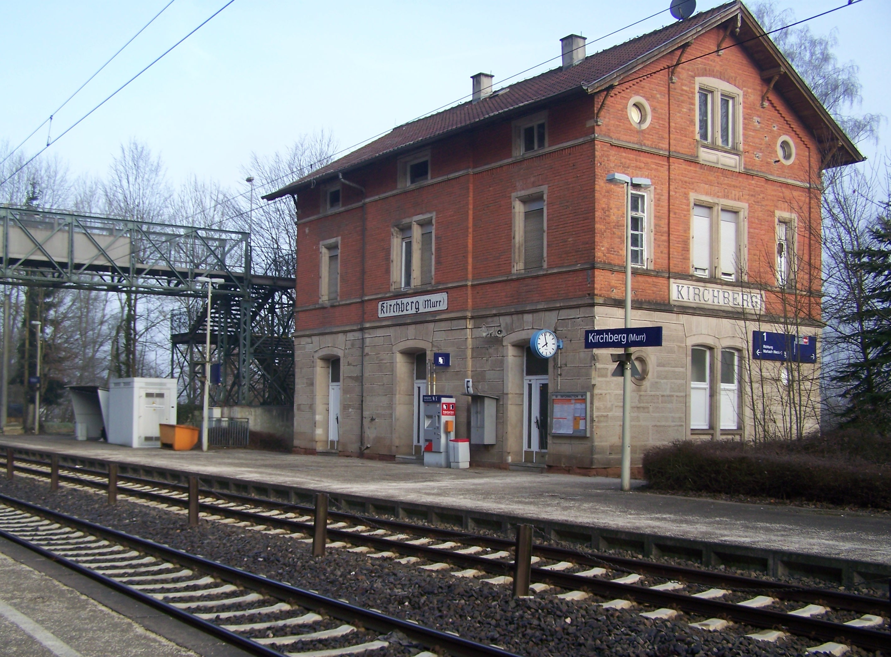 railway station Kirchberg an der Murr